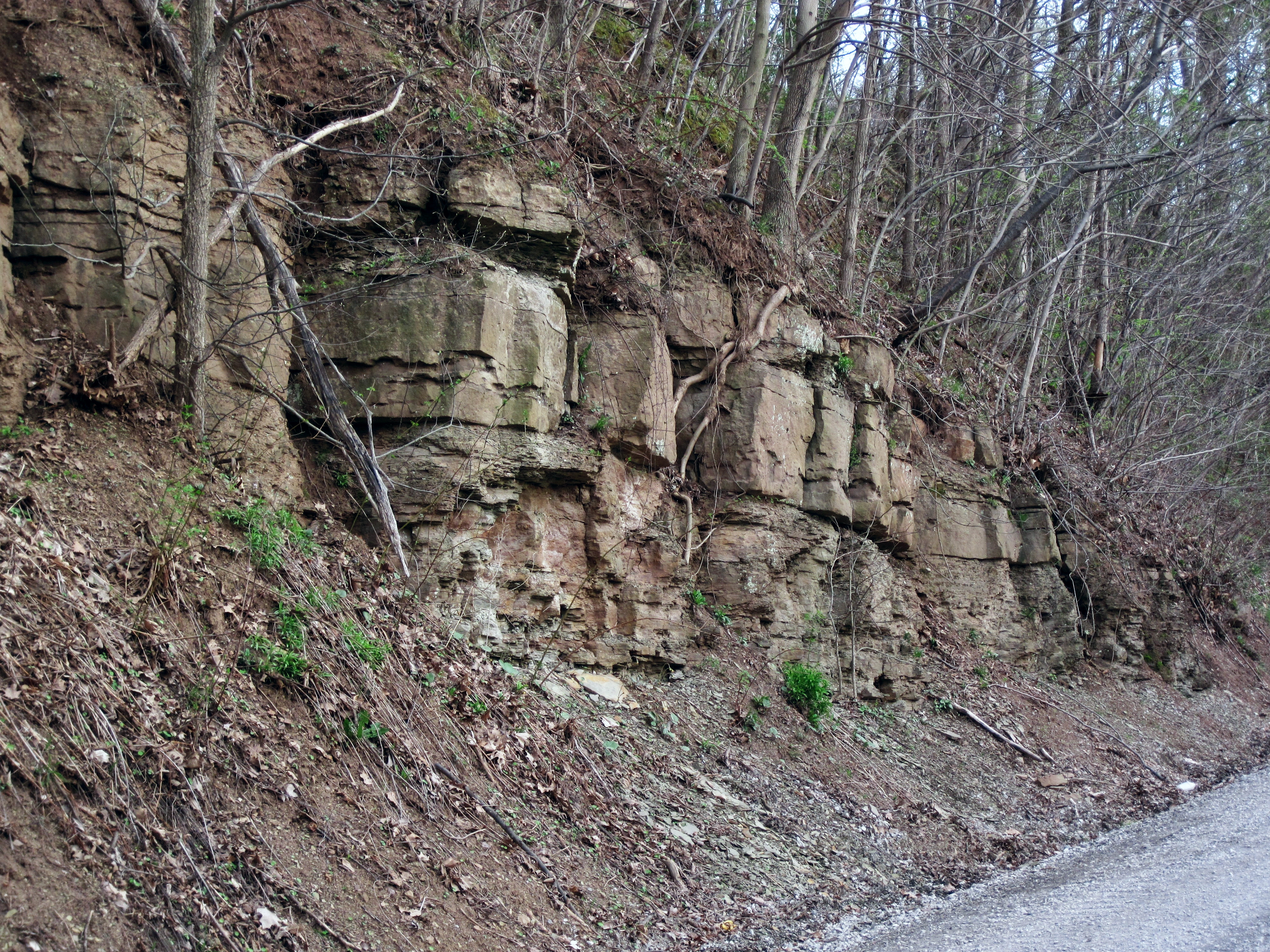 Sandstone in the Permian of Ohio, USA. The Upper Pennsylvanian to Lower Permian Dunkard Group of Ohio contains the youngest bedrock in the entire state. The unit consists of two stratigraphic formations: the Washington Formation (below) and the Greene Formation (above). This is a cyclothemic, nonmarine succession principally composed of shales, sandstones, lacustrine limestones, and thin coal beds. This photo shows a sandstone interval in the Greene Formation. It occurs about 5 to 6 feet above the Nineveh Limestone. The massive-weathering unit is a calcareous, micaceous, quartzose sandstone about 6 feet thick. Below it (= interval above the top of the talus pile) is about 5.5 feet of thin-bedded siltstones and argillaceous sandstones. Stratigraphy: sandstone interval at top of unit GR16 of Cross et al. (1950), Greene Formation, upper Dunkard Group, Lower Permian Locality: Clark Hill section - roadcut on the southeastern side of Long Ridge Road, south of Oppossum Creek, south-southeast of the town of Clarington, southeastern Alum Township, eastern Monroe County, eastern Ohio, USA (GPS: 39° 43.676’ North latitude, 80° 51.018’ West longitude) Reference cited: Cross et al. (1950) - Field guide for the special field conference on the stratigraphy, sedimentation and nomenclature of the Upper Pennsylvanian and Lower Permian strata (Monongahela, Washington and Greene Series) in the northern portion of the Dunkard Basin of Ohio, West Virginia and Pennsylvania. 107 pp.